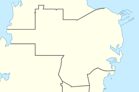 Al Khor Municipality